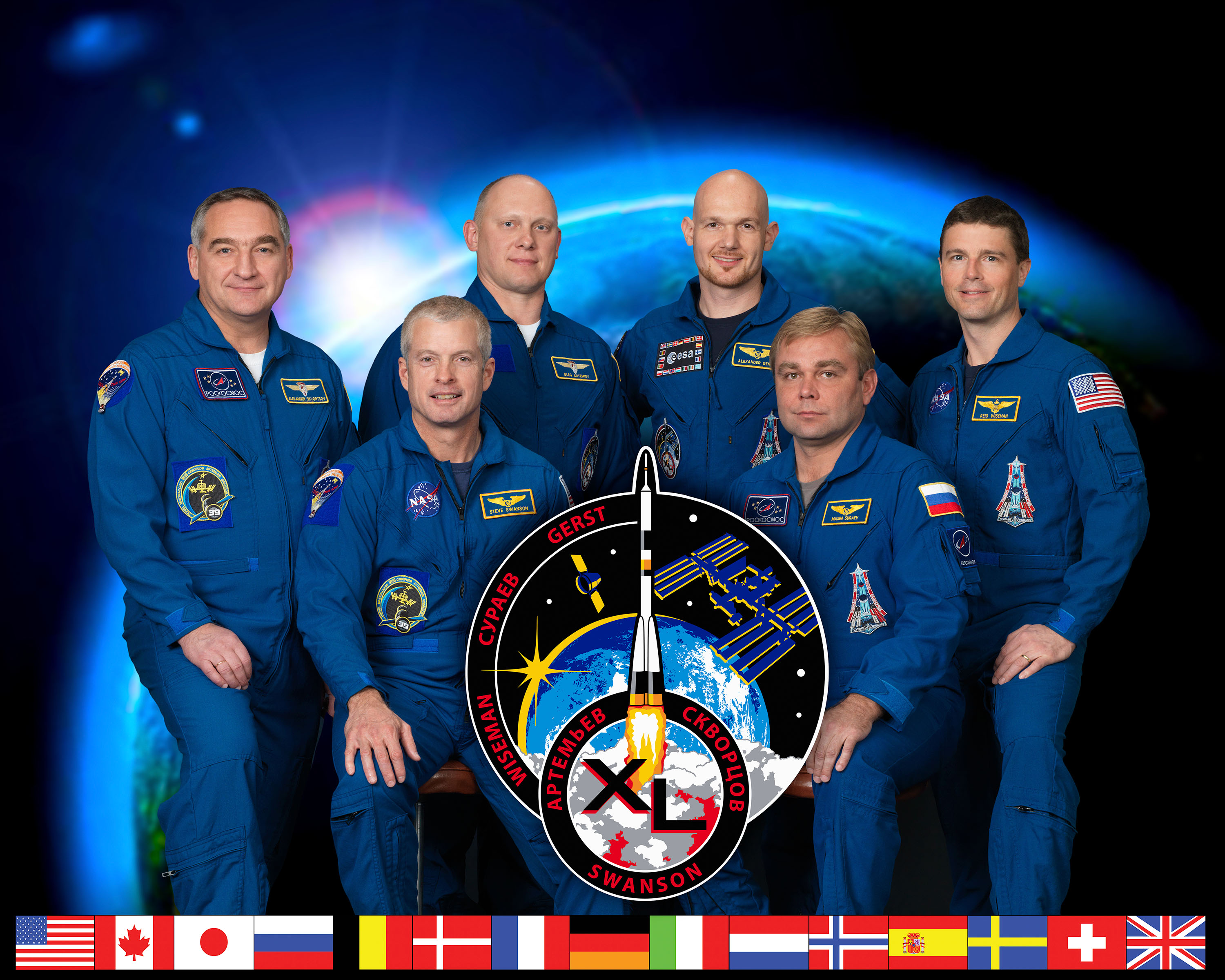 The six Expedition 40 crew members take a break from training to pose for their crew portrait. From left are cosmonaut Alexander Skvortsov of Roscosmos, NASA astronaut Steve Swanson and cosmonaut Oleg Artemyev; ESA astronaut Alexander Gerst, cosmonaut Maxim Suraev and NASA astronaut Reid Wiseman. The 38S crew is composed of Swanson, Skvortsov and Artemyev. The 39S crew includes Suraev, Gerst and Wiseman.